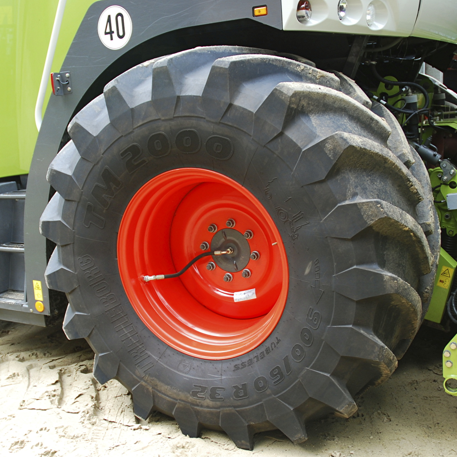 CTIS hose at a front wheel of a Claas Jaguar 970 forage harvester; Trelleborg radial tyre (code 900/60R32)